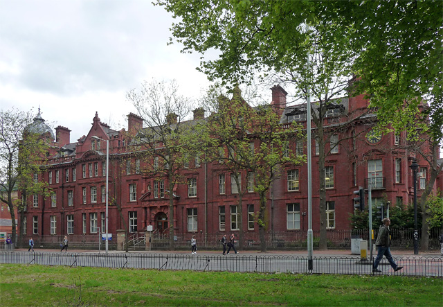 Photograph of St Mary's Hospital, Oxford Road, Manchester, England